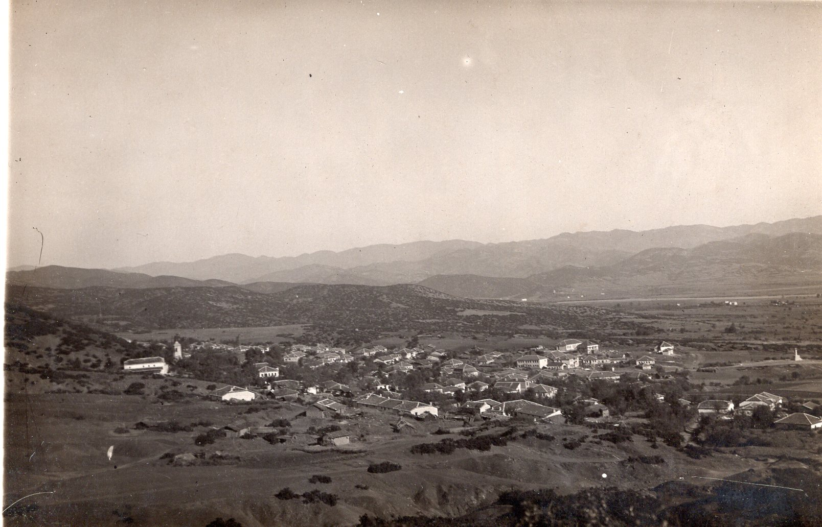 Miravci, photo from 1931 This media file is produced by Wikipedian in Residence in Category:Wikipedian in Residence at DARM in 2016.